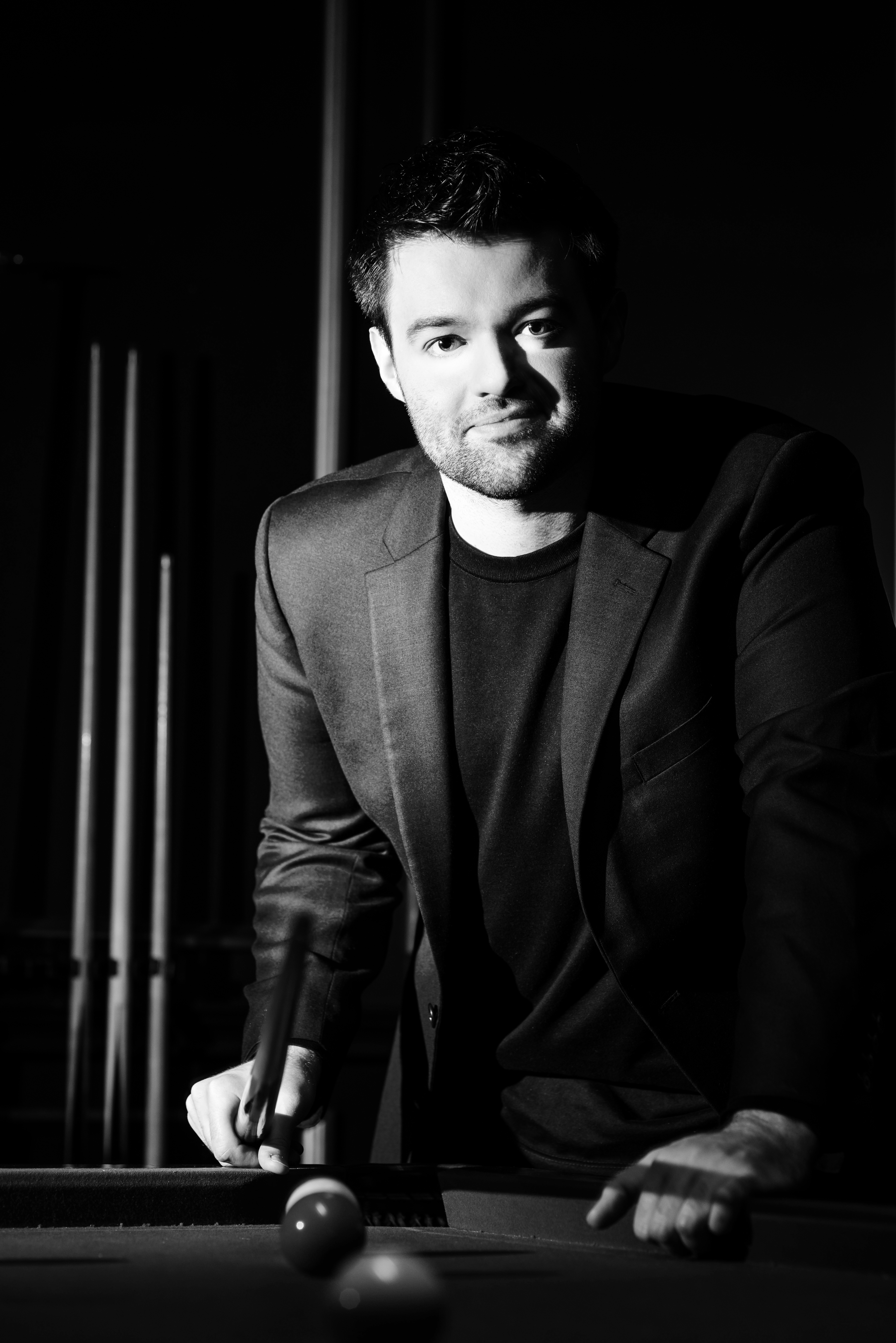 Photo of Eamonn McCrystal in Belfast 2016